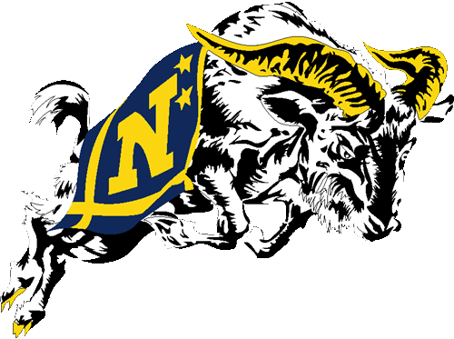 Logo for the Navy Midshipmen.